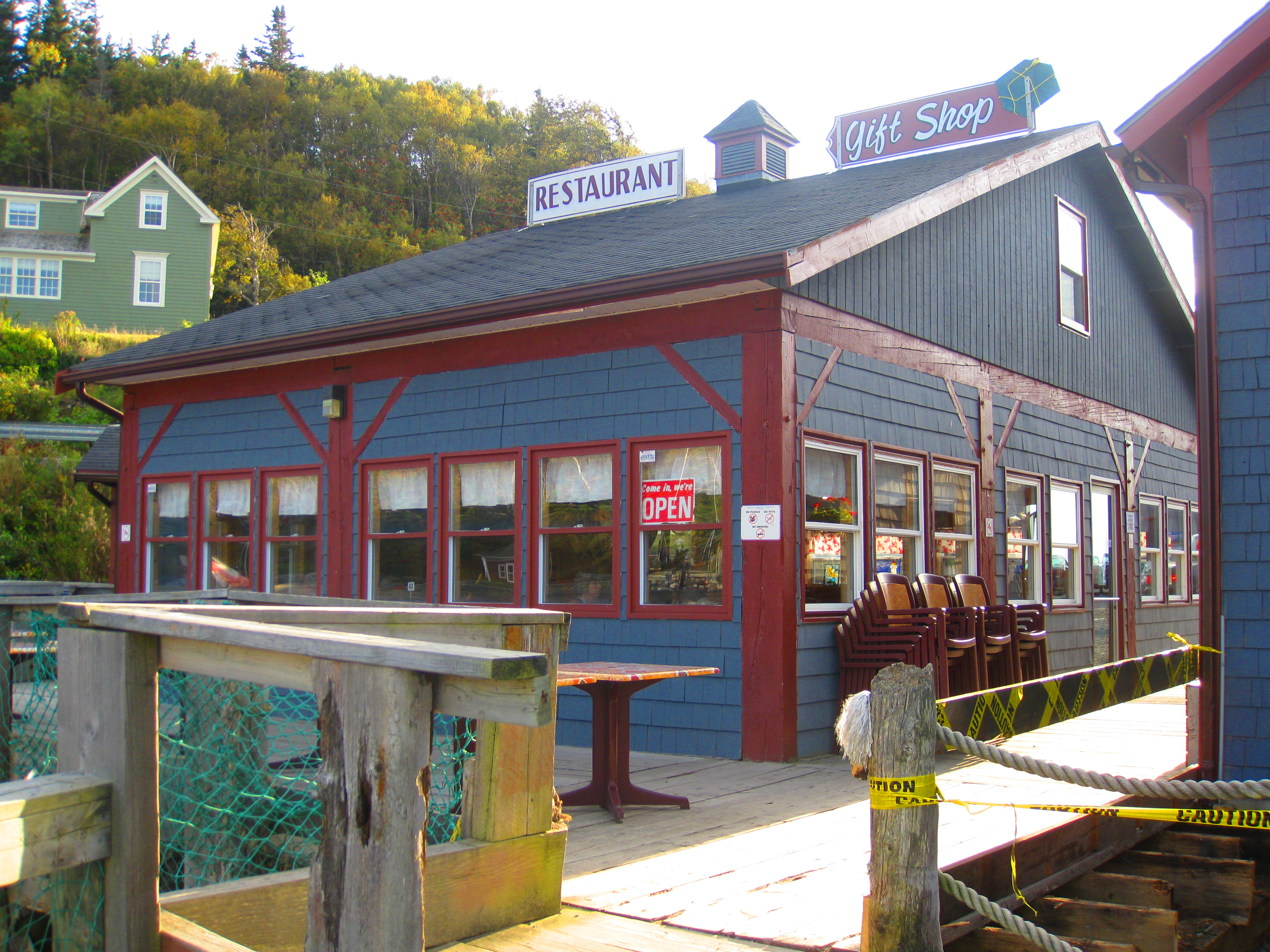 Seafood restaurant in Hall's Harbour